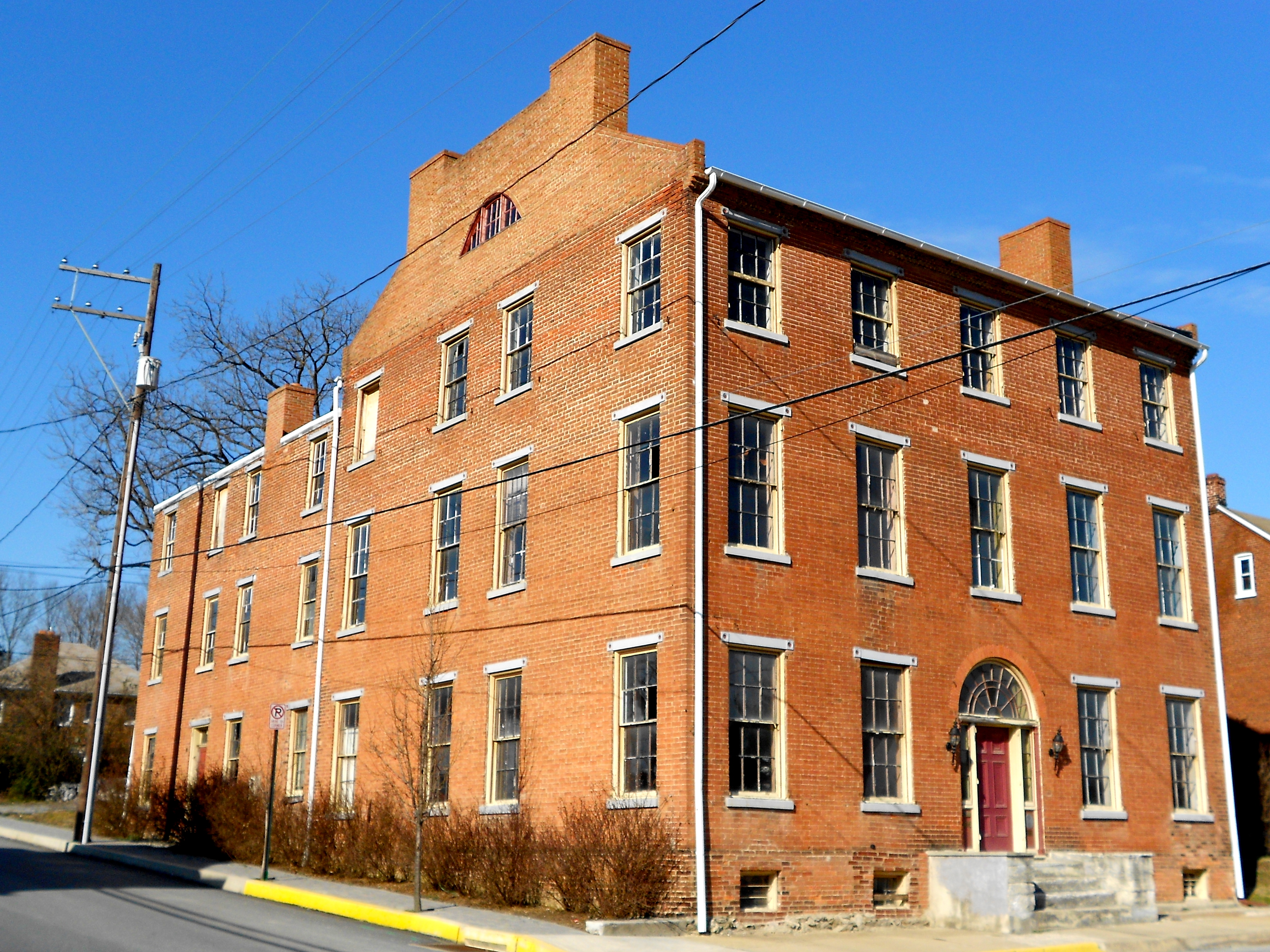 Linden House, listed on the NRHP on January 6, 1983. Located at 606 East Market Street, Marietta, Lancaster County, Pennsylvania.